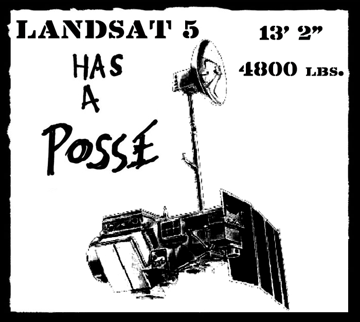 Landsat 5 has a posse